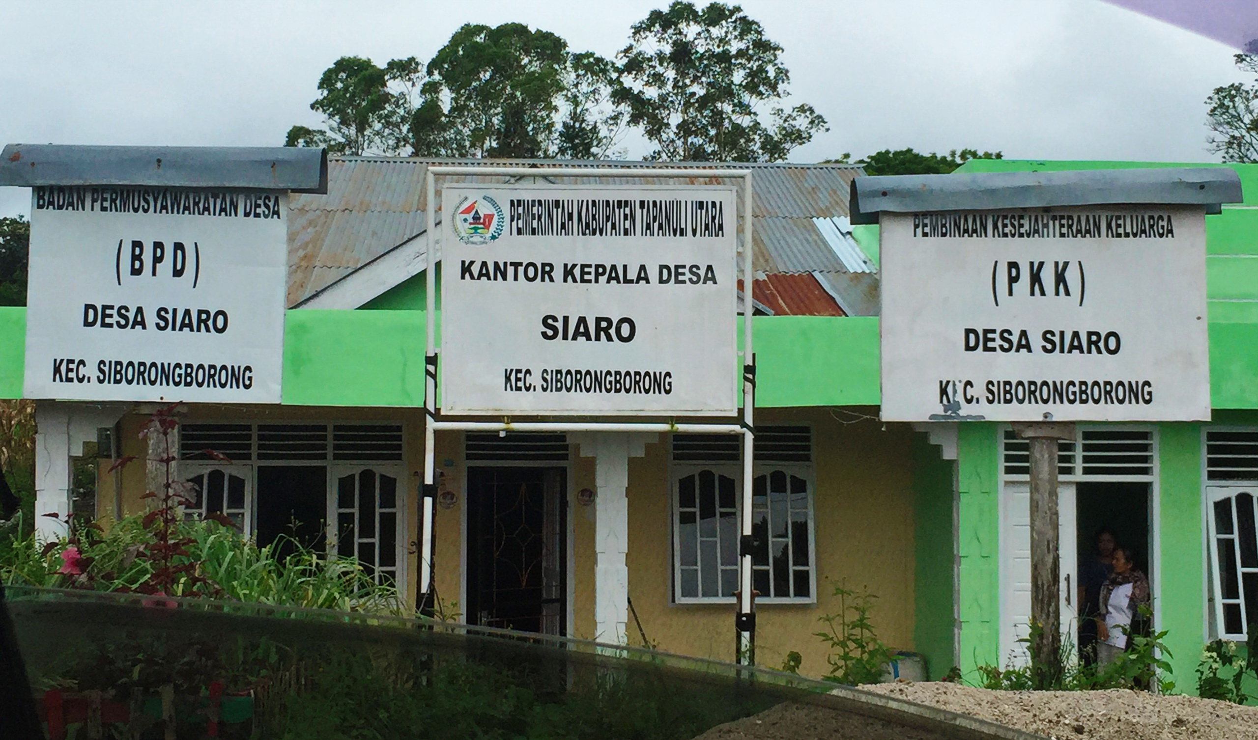 Office of Siaro, Siborongborong, Tapanuli Utara